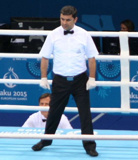 Fuad Aslanov as a referee. Nicola Adams vs Sandra Drabik - 2015 European Games - Final